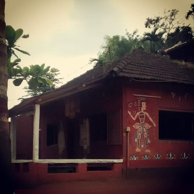 Ninasam office at Heggodu in Sagara Talukಕನ್ನಡ: ನಿನಾಸಂ ಹೆಗ್ಗೊಡು